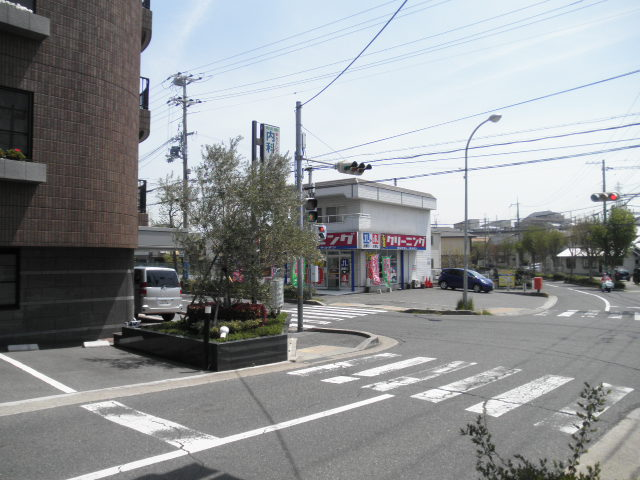 Minamibeppu2 Nishi-ku Kobecity Hyogopref